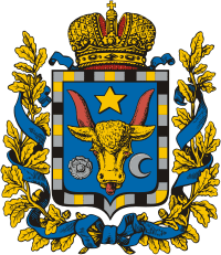 Coat of arms of Bessarabia Governorate, Russian Empire.